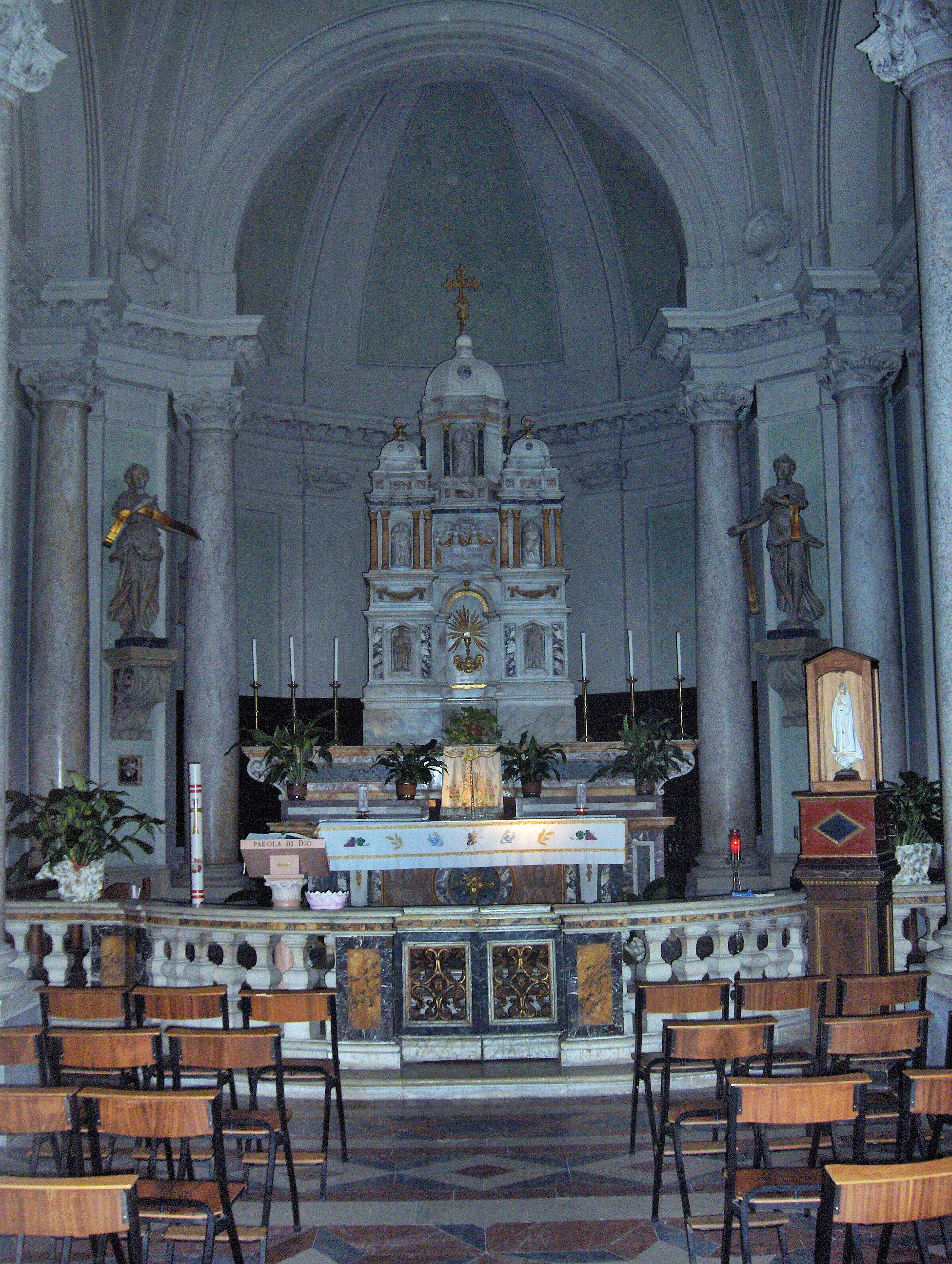 Chapel of the Sacramento with a precious marble tabernacle sculpted by Flaminio Vacca (1587);. in the church of San Lorenzo; Spello, Italy.